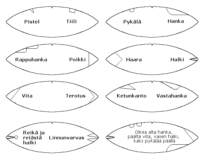 Basic ear marks (for both ears) that are used to construct a ownership ear mark. Bottom right ear mark is a constructed ear mark. Ear marker is viewing the ears from the back of the reindeer.